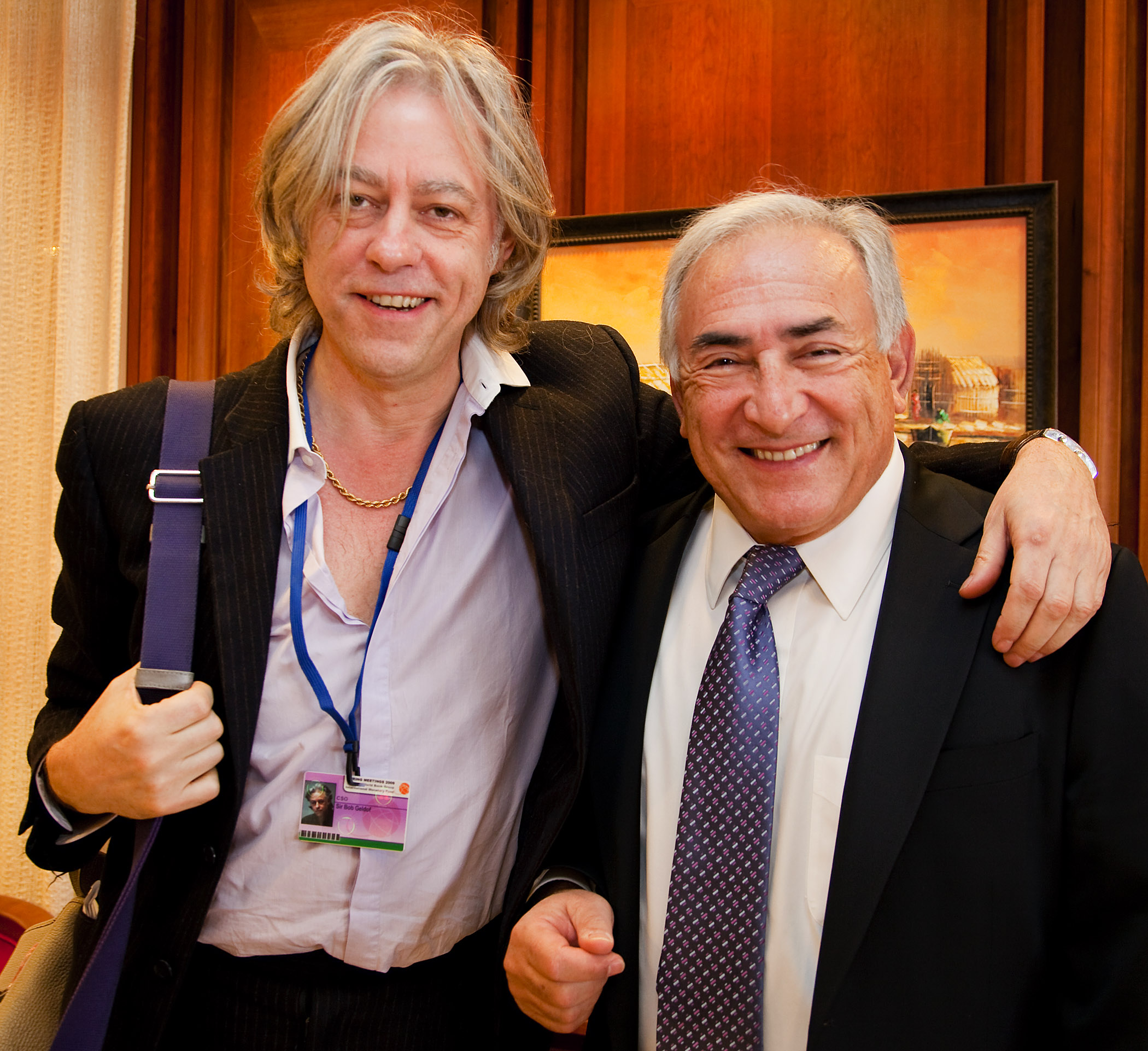 International Monetary Fund Managing Director Dominique Strauss-Kahn (R) greets Bob Geldof (L) at the IMF's Headquarters April 23, 2009 in Washington, DC.